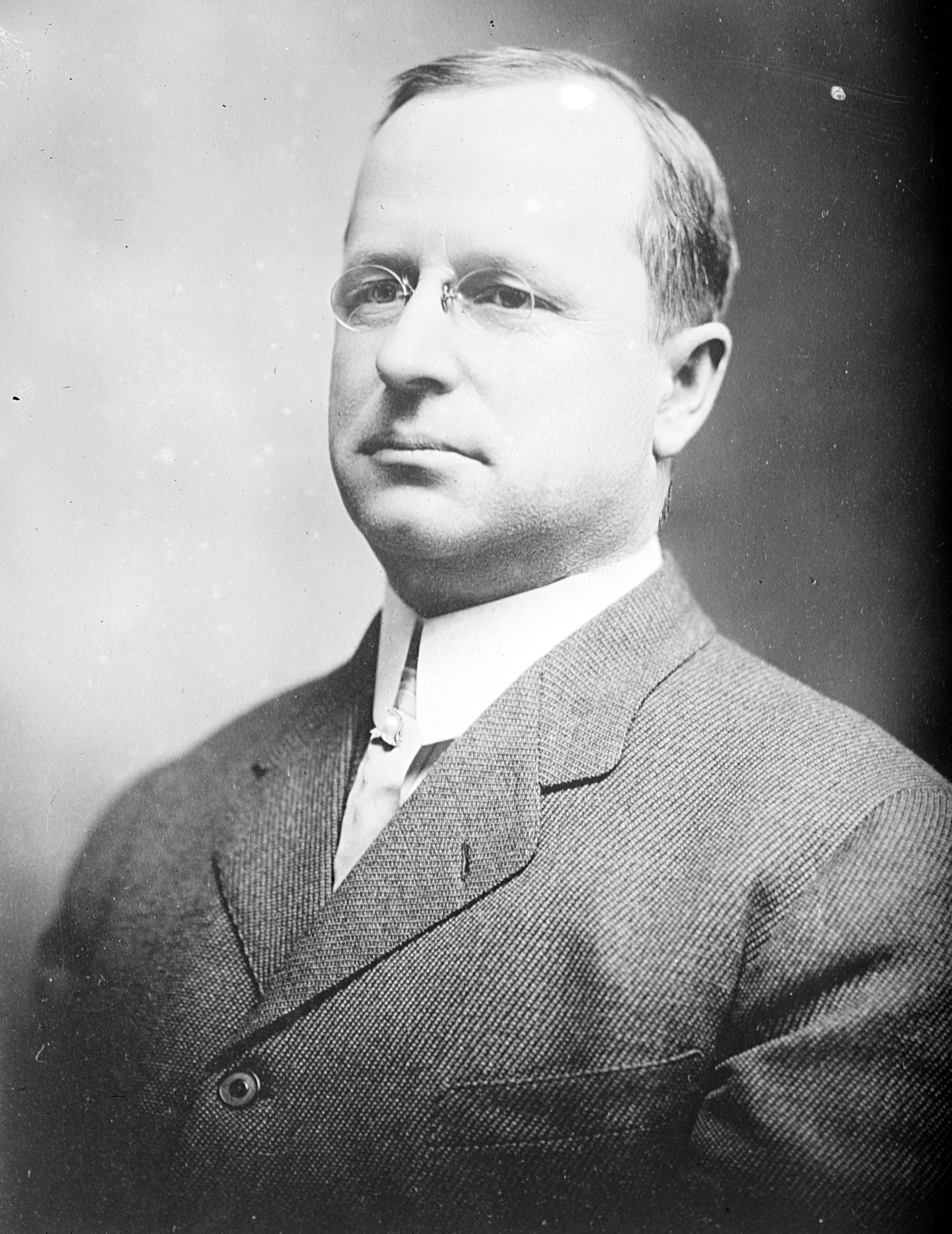 Franklin Lewis Dershem, US Representative from Pennsylvania